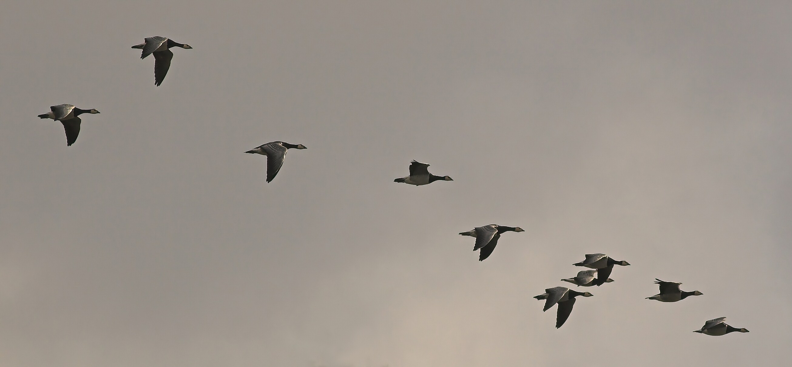 Wider cut of Barnacle Geese flock (Branta leucopsis) flying in formation during autum migration, catching last rays of the sun in dull autumn sky. The picture is taken in Finland, where the so called "Fourth population", originating from Novaya Zemlya, resides during summer.